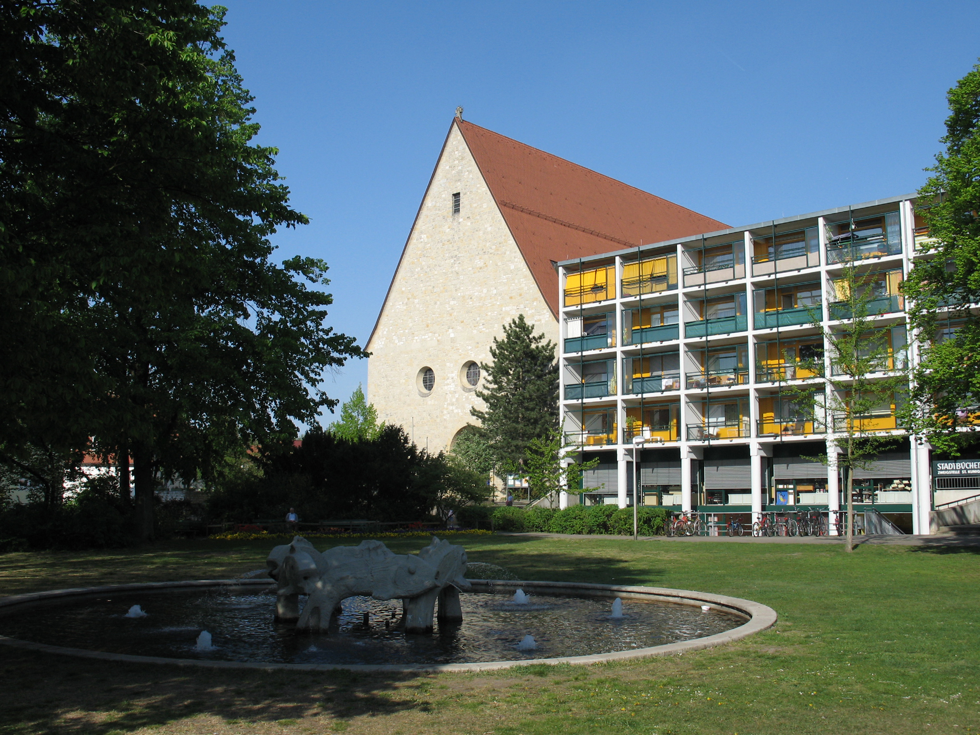 Bamberg-Gartenstadt, Gartenstädter Markt and dolphin fountain by Robert Bauer Haderlein. In background St Cunigunde's Parish Church and community centre „Haus der Begegnung“ (from left to right).